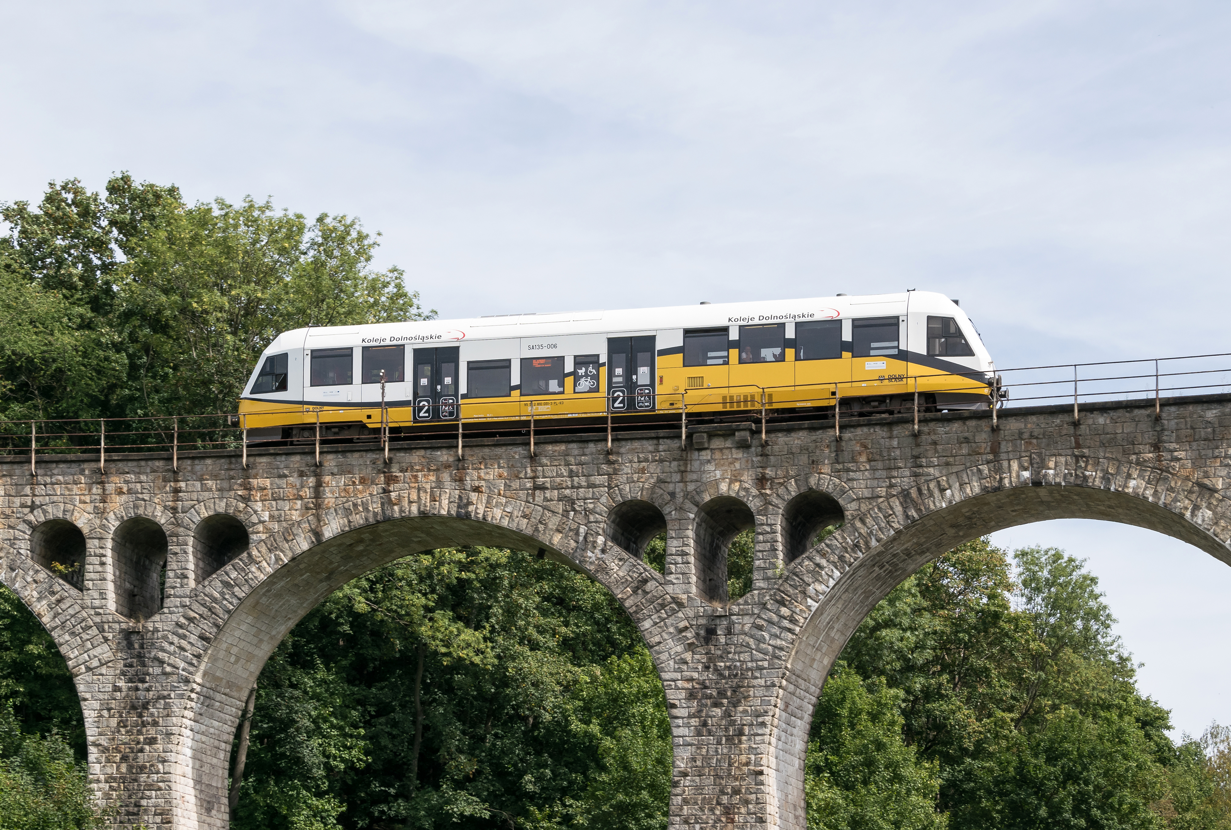 Railbus Pesa SA135 on the overpass in Lewin Kłodzki